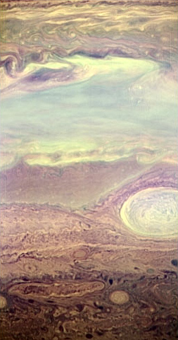 This image, taken with the LEISA infrared camera on the New Horizons Ralph instrument, show fine details in Jupiter's turbulent atmosphere using light that can only be seen using infrared sensors. This is a "false color" picture made by assigning infrared wavelengths to the colors red, green and blue. LEISA (Linear Etalon Imaging Spectral Array) takes images across 250 IR wavelengths in the range from 1.25 to 2.5 microns, allowing scientists to obtain an infrared spectrum at every location on Jupiter. A micron is one millionth of a meter. This picture was taken at 05:58 UT on February 27, 2007, from a distance of 2.9 million kilometers (1.6 million miles). It is centered at 8 degrees south, 32 degrees east in Jupiter "System III" coordinates. The large oval-shaped feature is the well-known Great Red Spot. The resolution of each pixel in this image is about 175 kilometers (110 miles); Jupiter's diameter is approximately 145,000 kilometers (97,000 miles). In this image, red equals 1.28 microns, green equals 1.30 microns and blue equals 1.36 microns, a range of wavelengths that probes different altitudes in the atmosphere. This choice of wavelengths highlights Jupiter's high-altitude south polar hood of haze. This image illustrates only a small fraction of the information contained in a single LEISA scan, highlighting just one aspect of the power of infrared spectra for atmospheric studies.